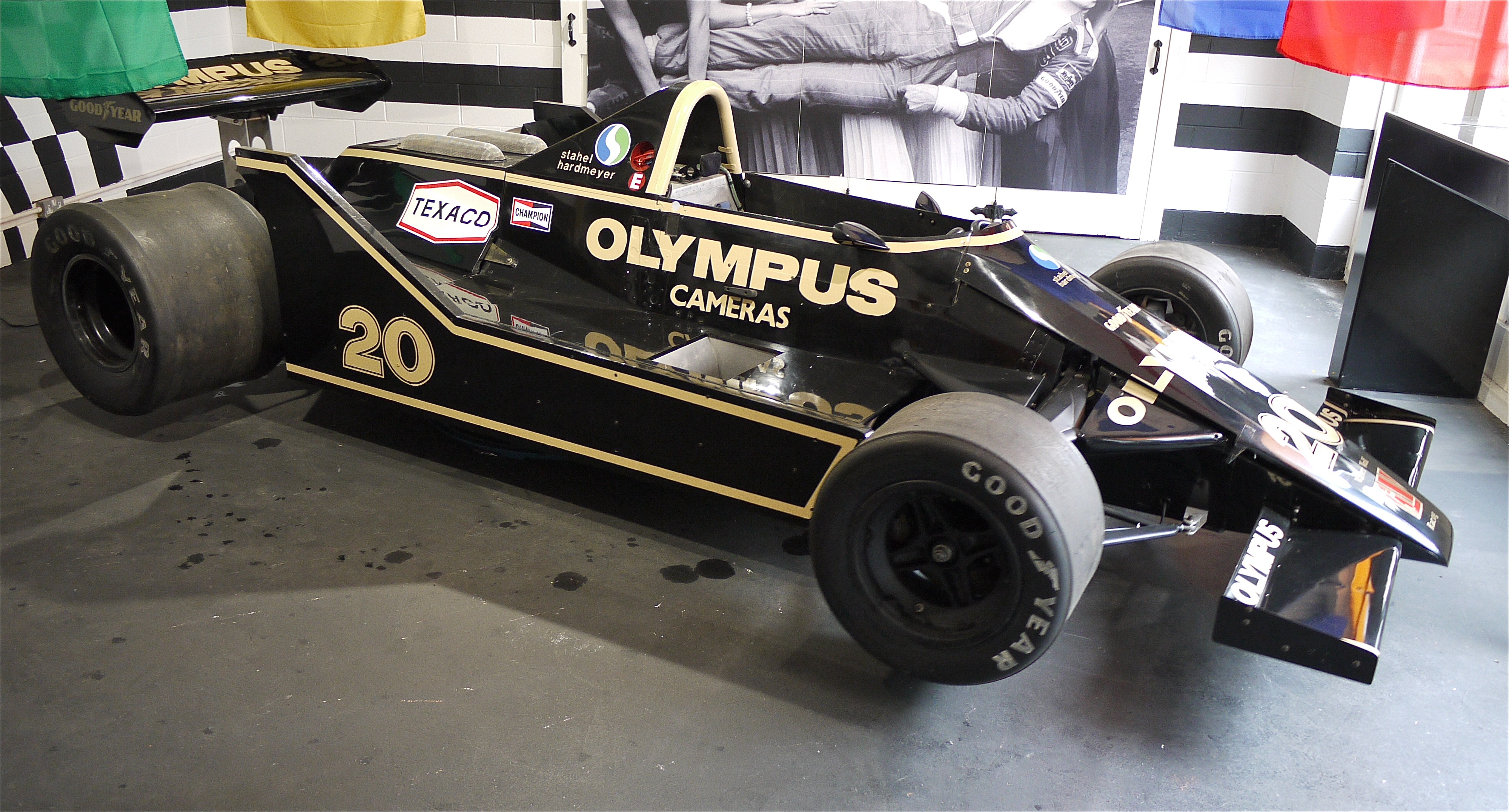 At Bourton On The Water Motor Museum. Panasonic G1 14-45 Lens